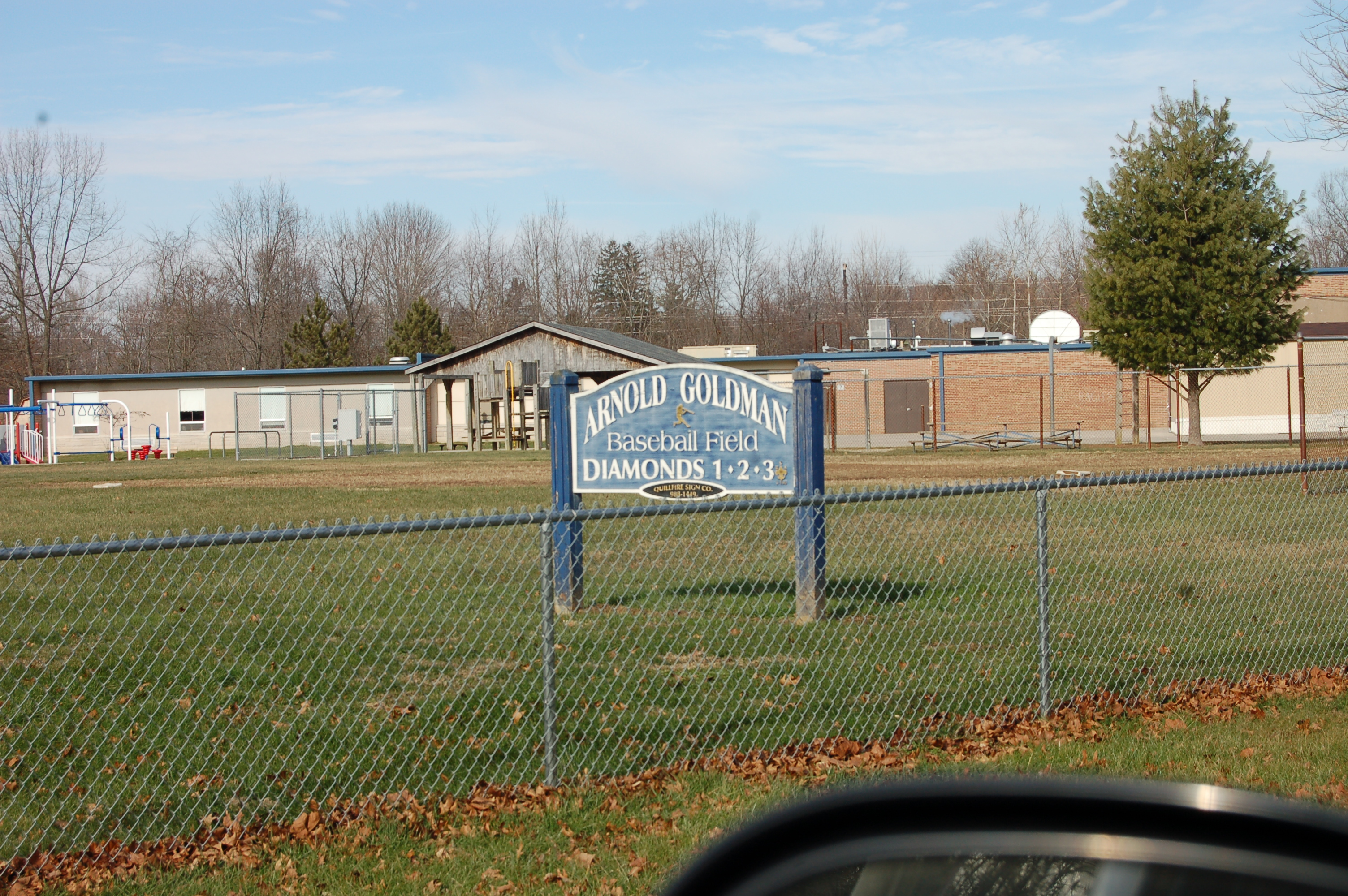 Baseball Diamonds outside Helmsburg Elementary School.